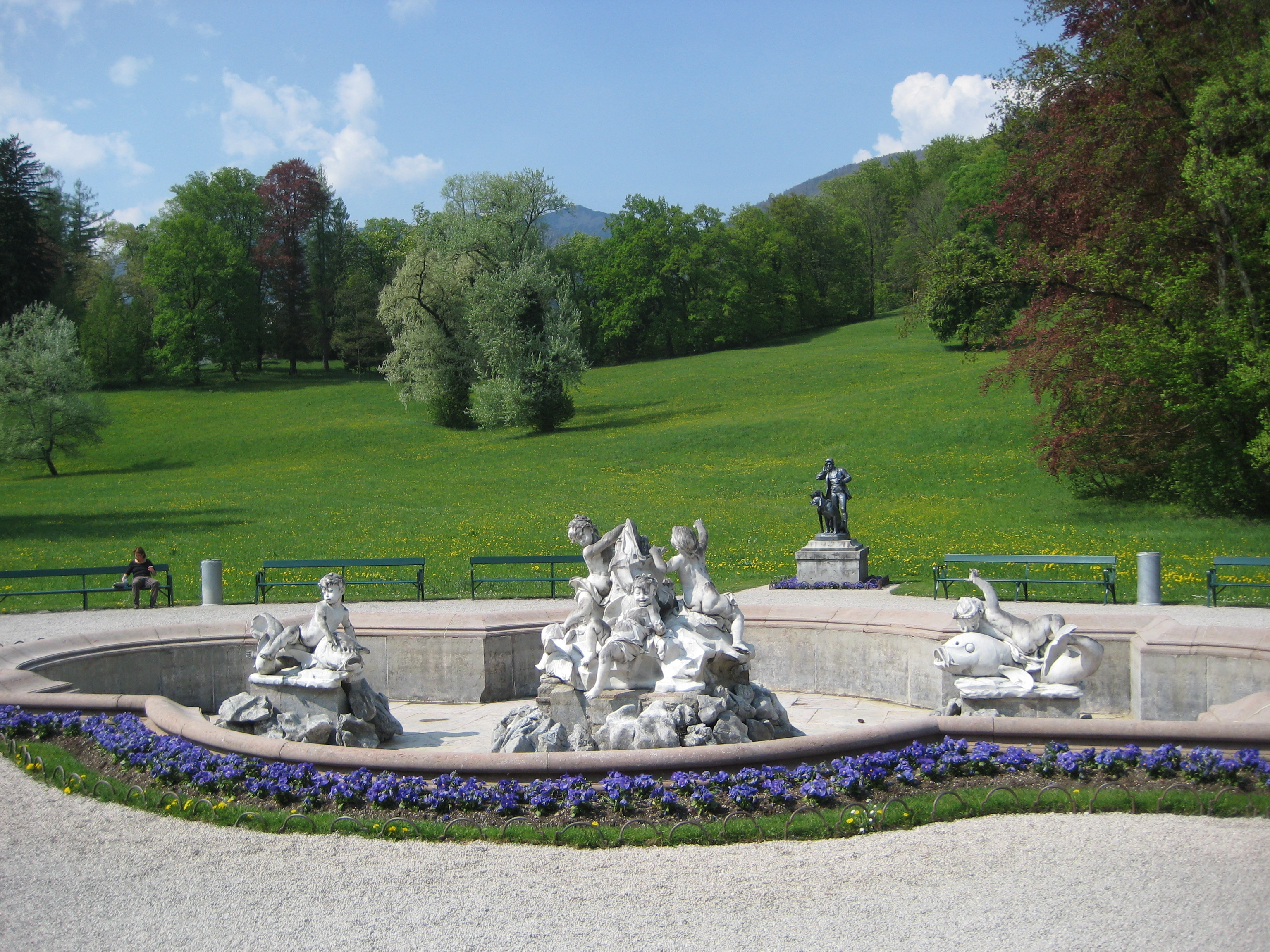 Bad Ischl, Kaiservilla